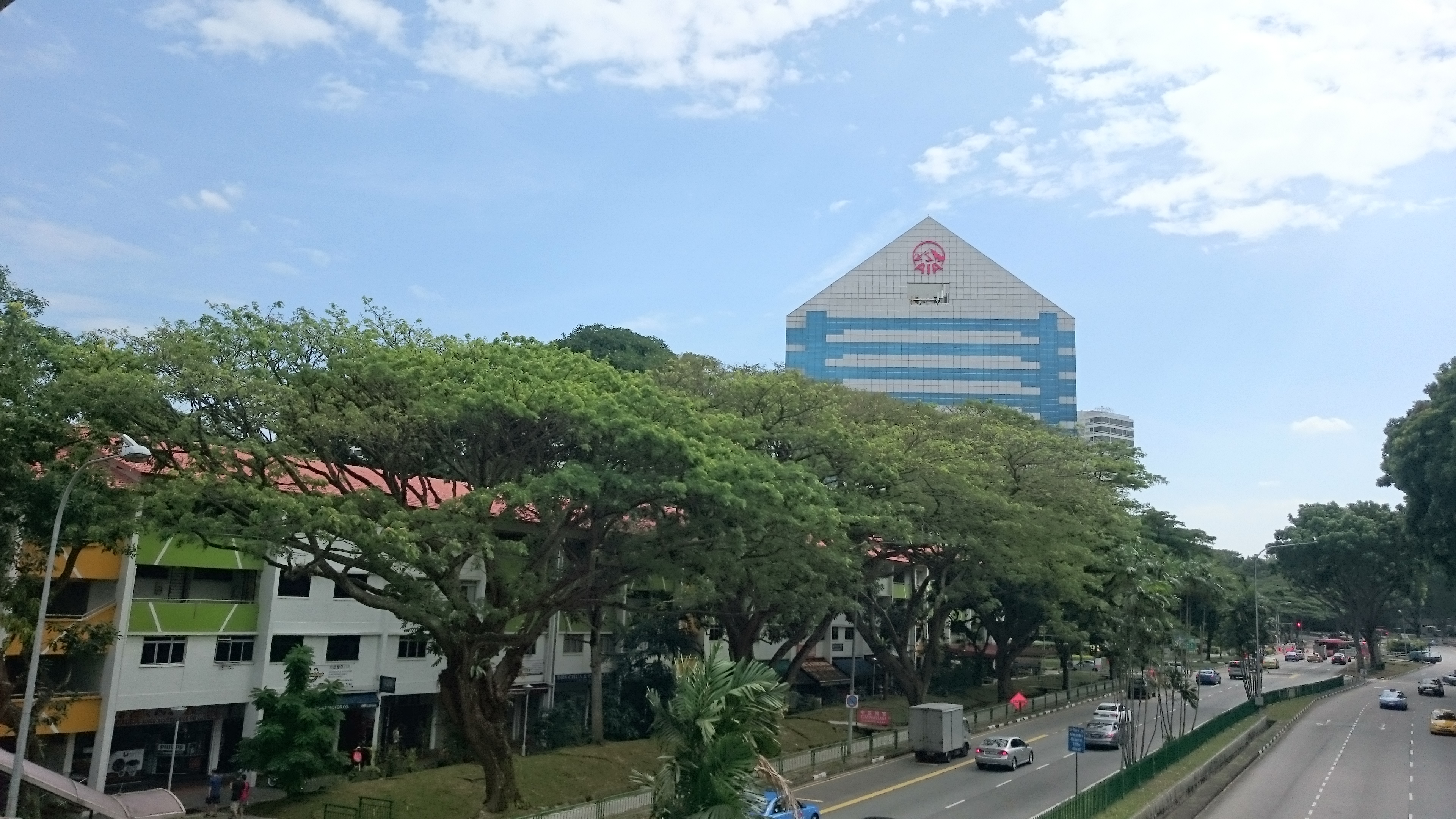 AIA Tower at Singapore